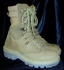 Terra Combat Boots for use in Jungle and Desert conditions.